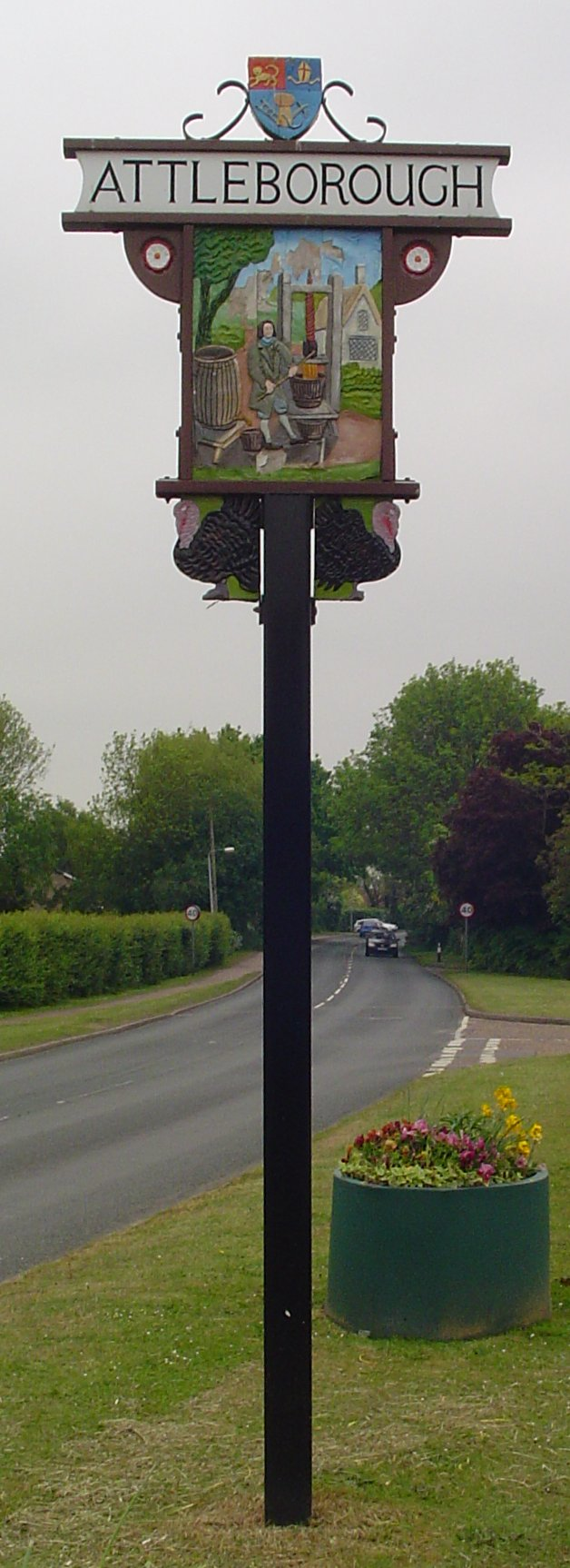 Signpost in Attleborough